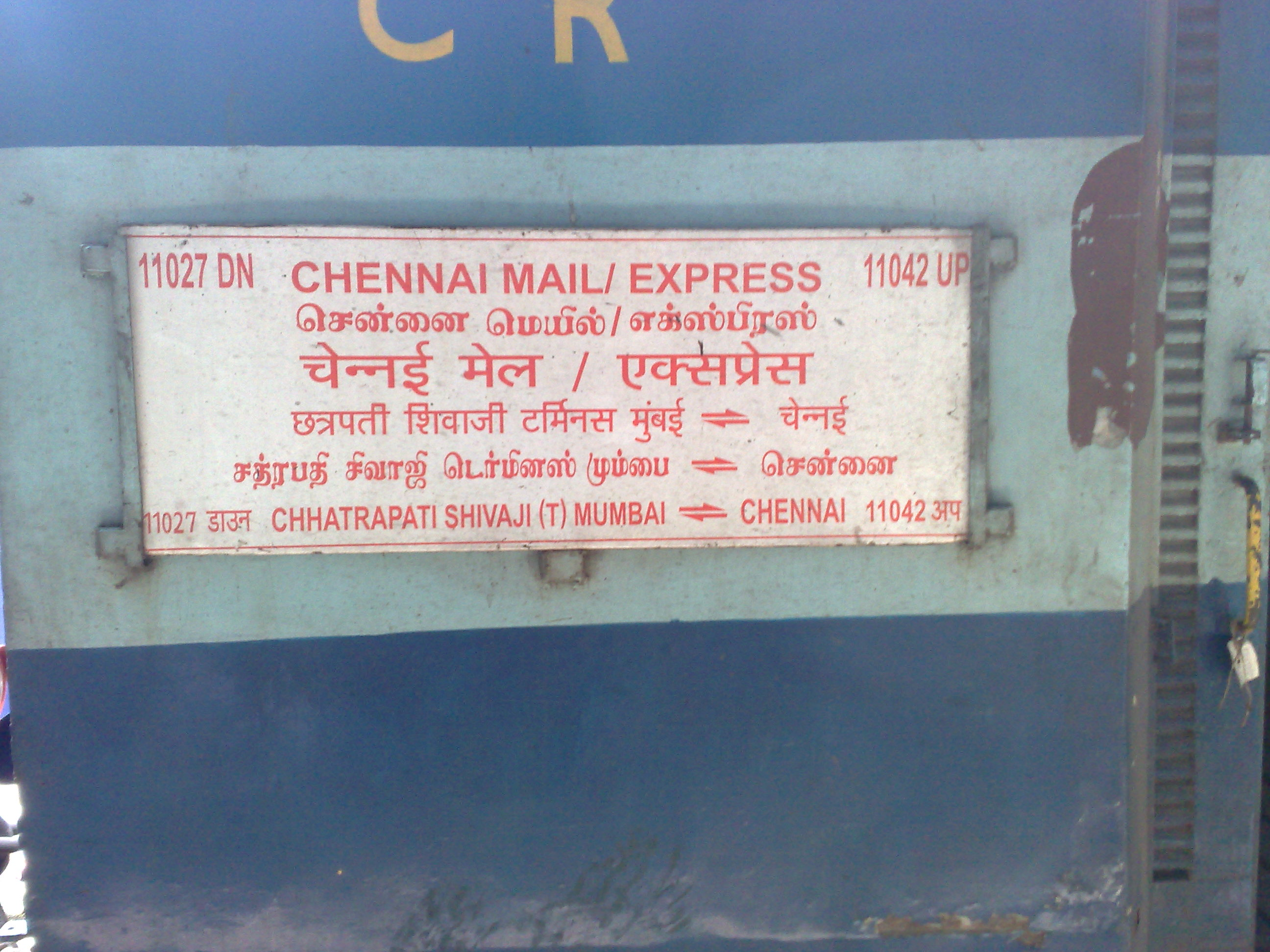 CHENNAI EXPRESS